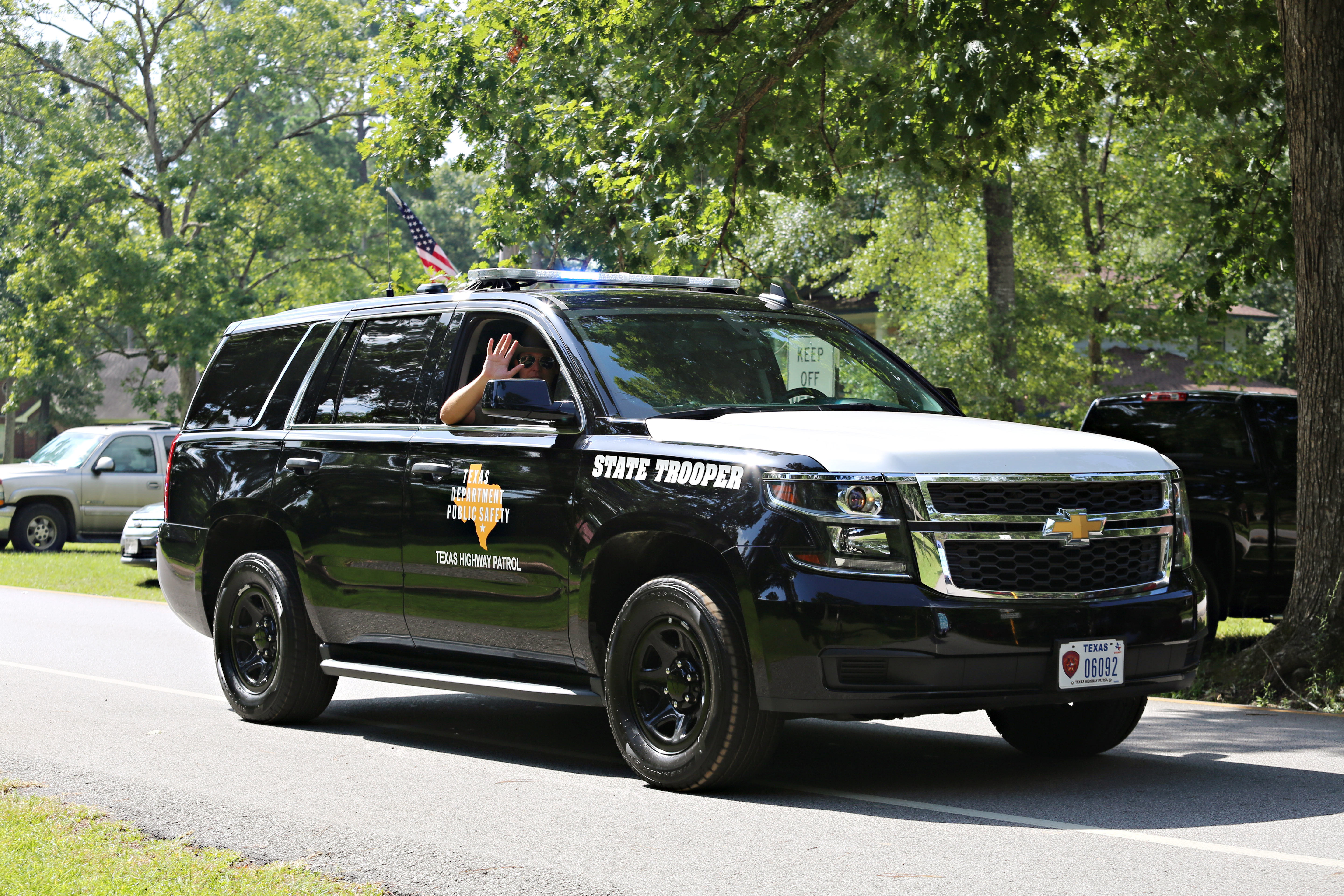 Roman Forest Independence Day Parade 2016